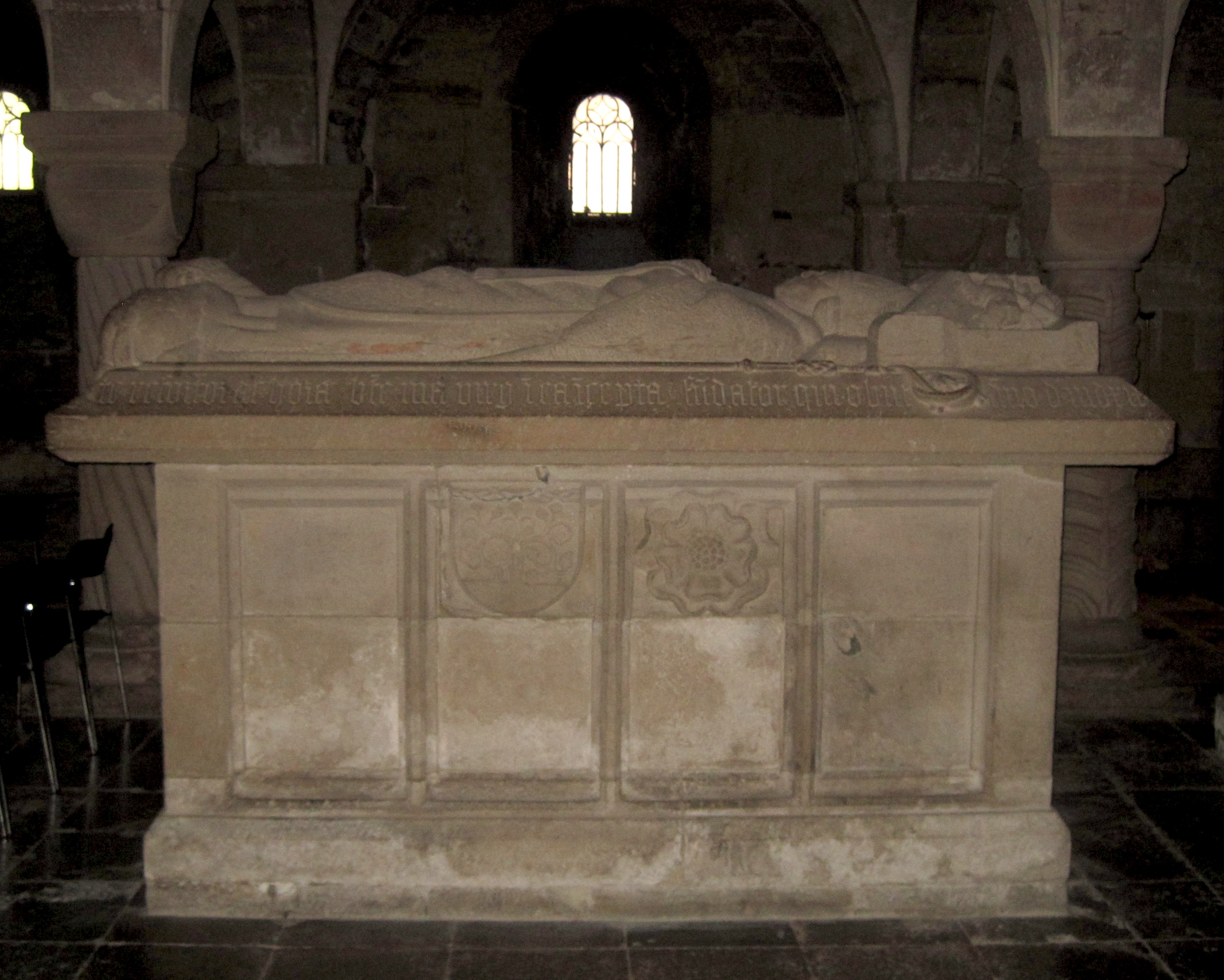 The sarcophagus of archbishop Birger Gunnersen (died 1519) in the crypt of Lund Catherdral, made by Adam van Düren in 1512.